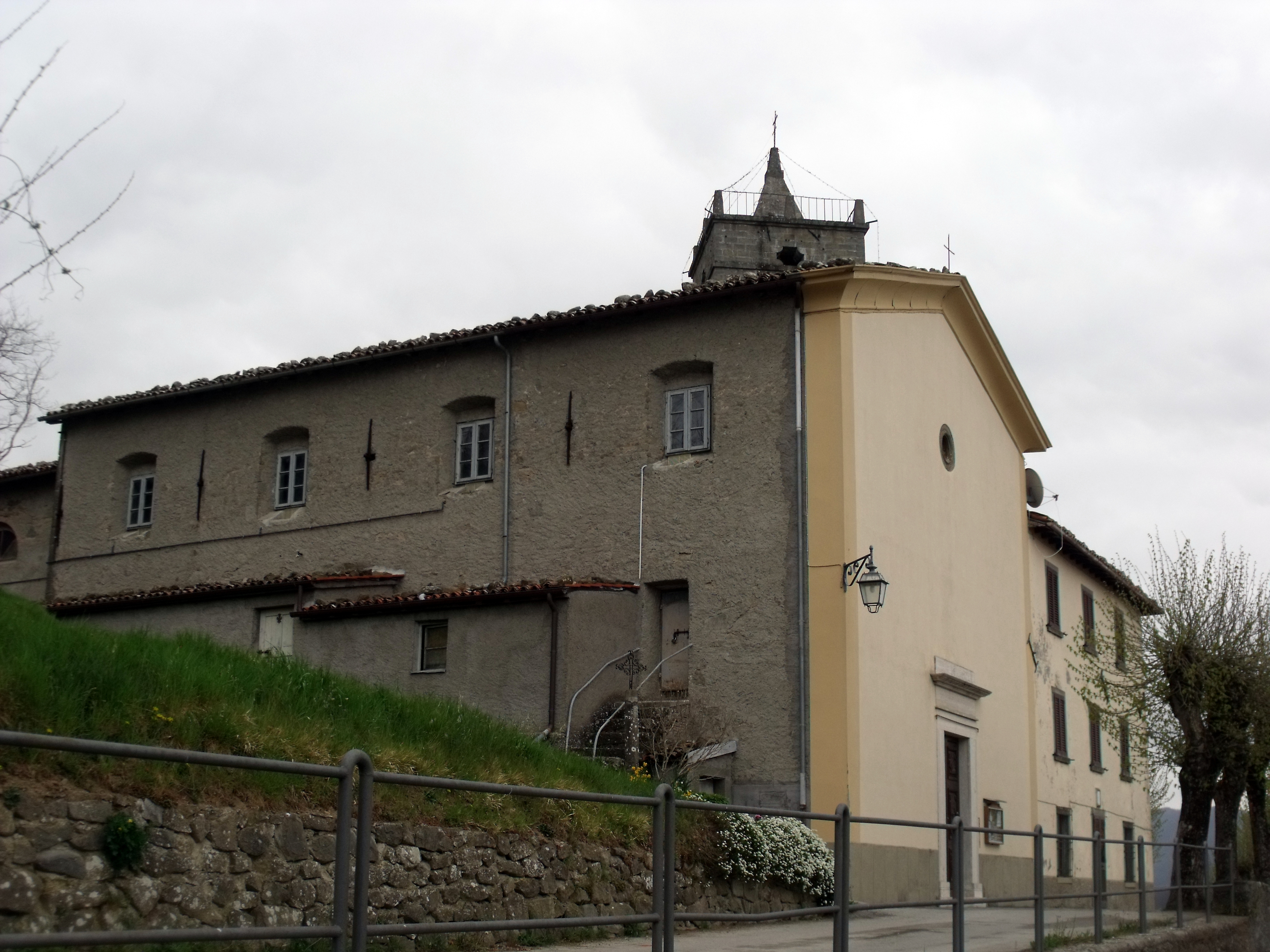 Church of San Bartolomeo in Chiozza, hamlet of Castiglione di Garfagnana, Province of Lucca, Tuscany, Italy